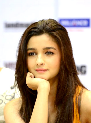 Alia Bhatt at the DVD launch of 'Highway'